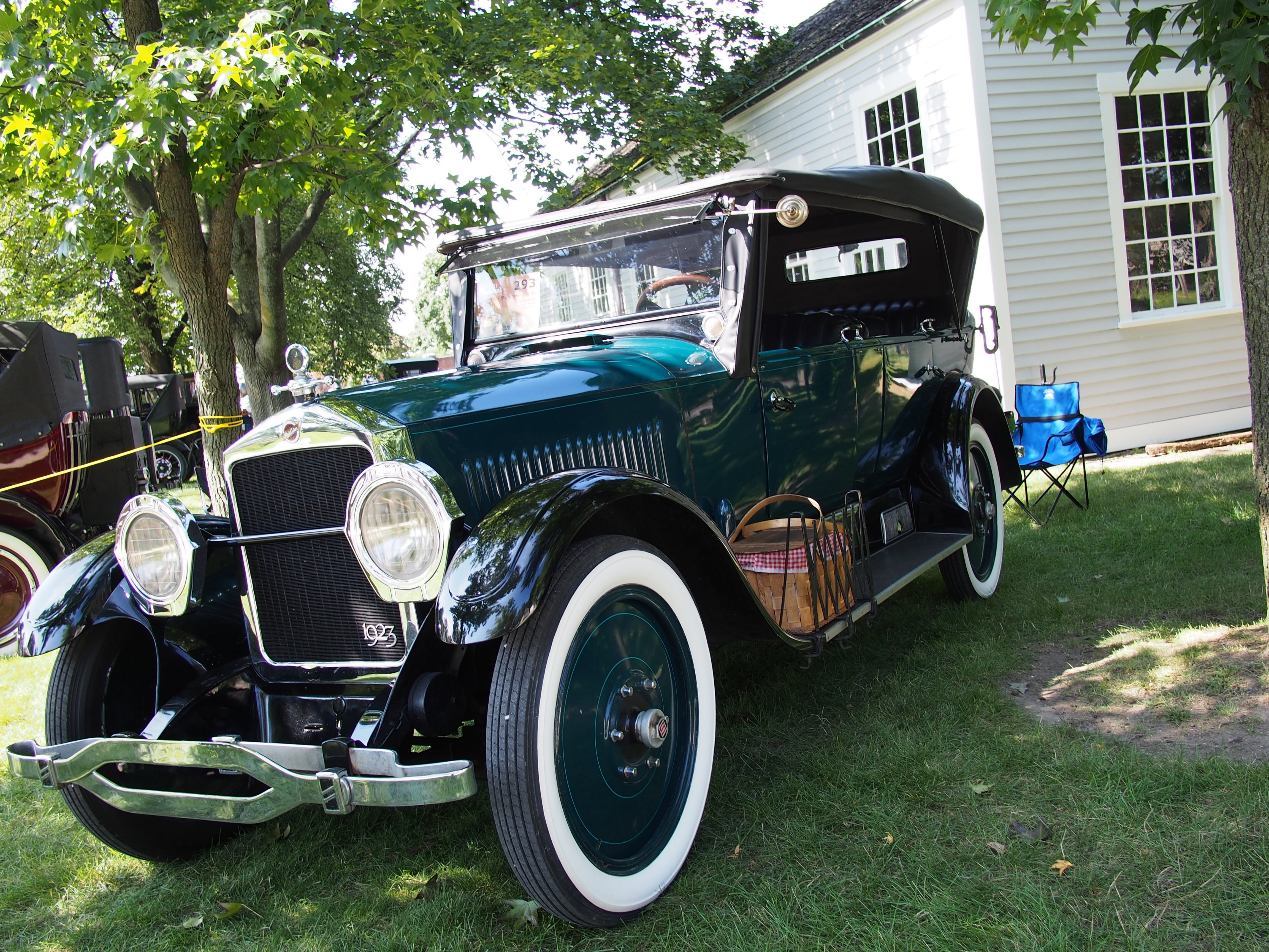 1923 Studebaker Big Six Dearborn, Michigan, United States